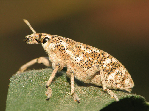 Cyphocleonus achates "knapweed root weevil". Photographed in Peachland, British Columbia, 8/7/08.